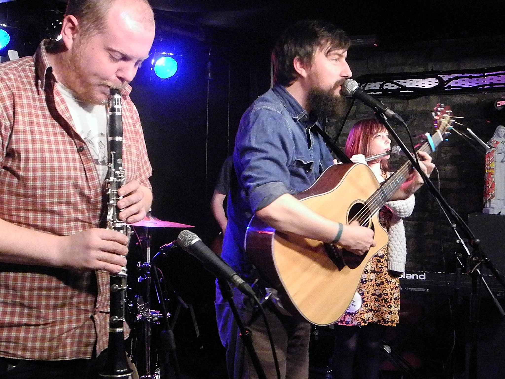 Admiral Fallow play Academy 2, Oct 2011